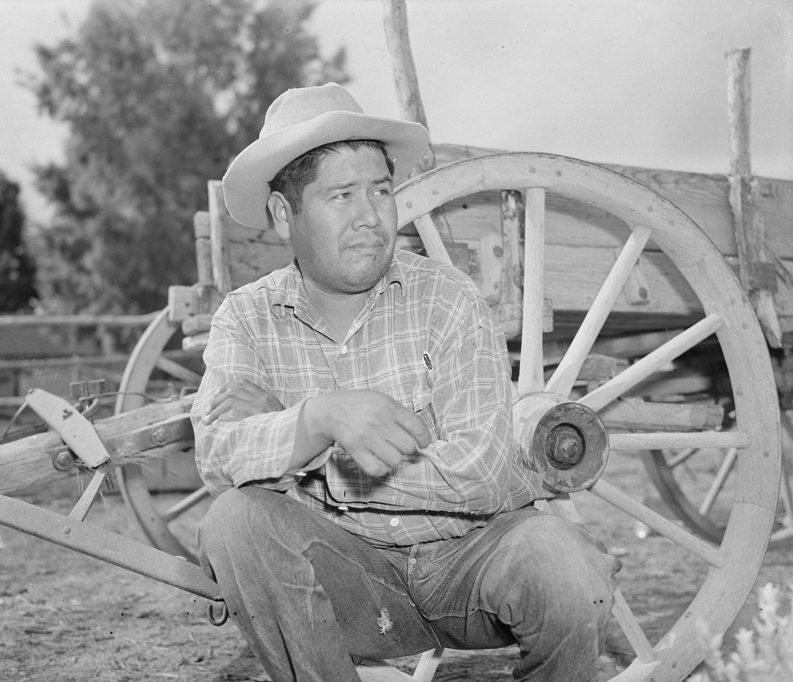 Scope and content: The full caption for this photograph reads: Parker, Arizona. Henry Welsh, Mojave Indian and chairman of the tribal council of the Colorado River Indian Reservation which is site of a War Relocation Authority center for evacuees of Japanese ancestry.